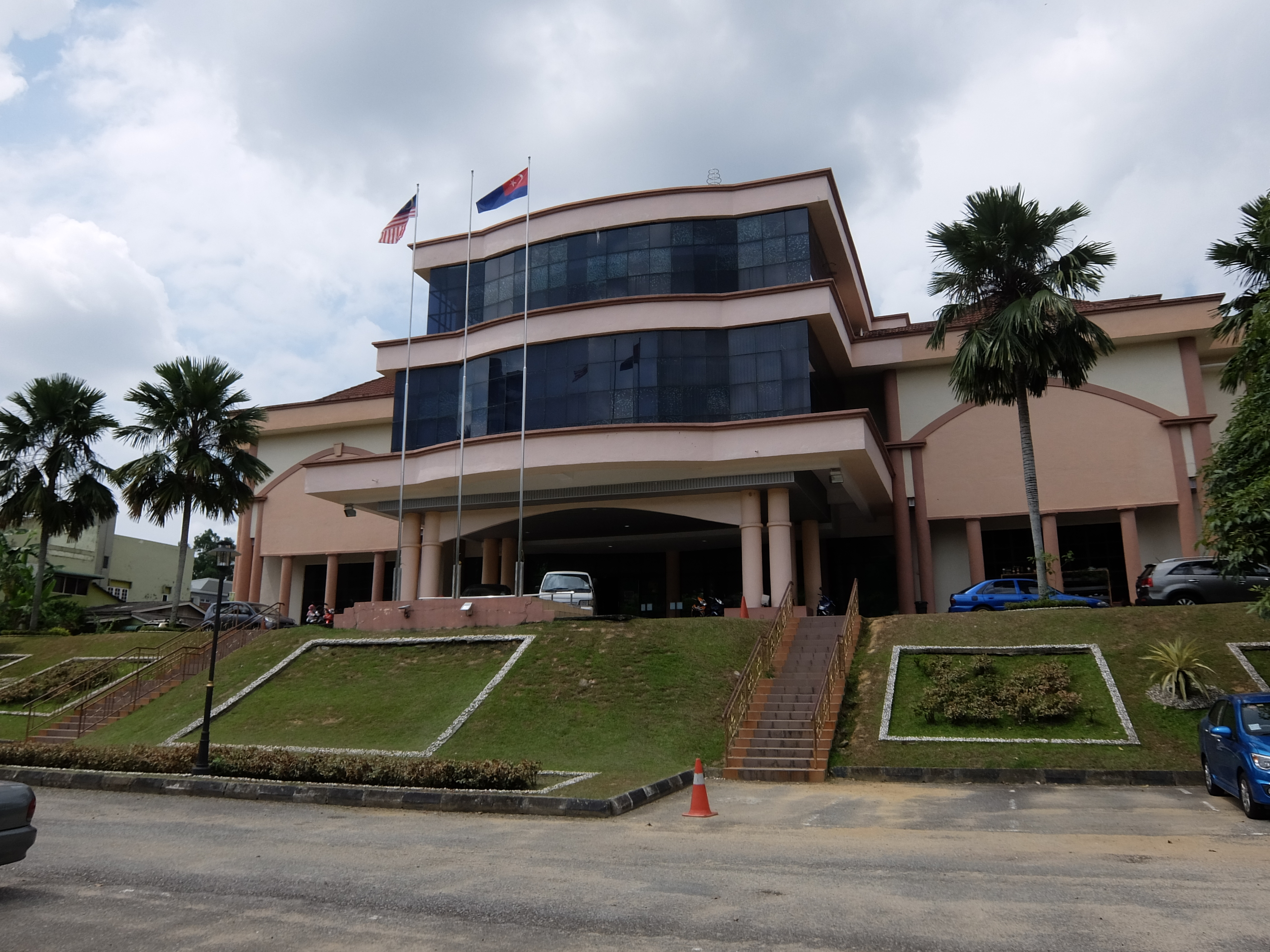 Johor Public Library Corporation, Johor Bahru, Johor, Malaysia